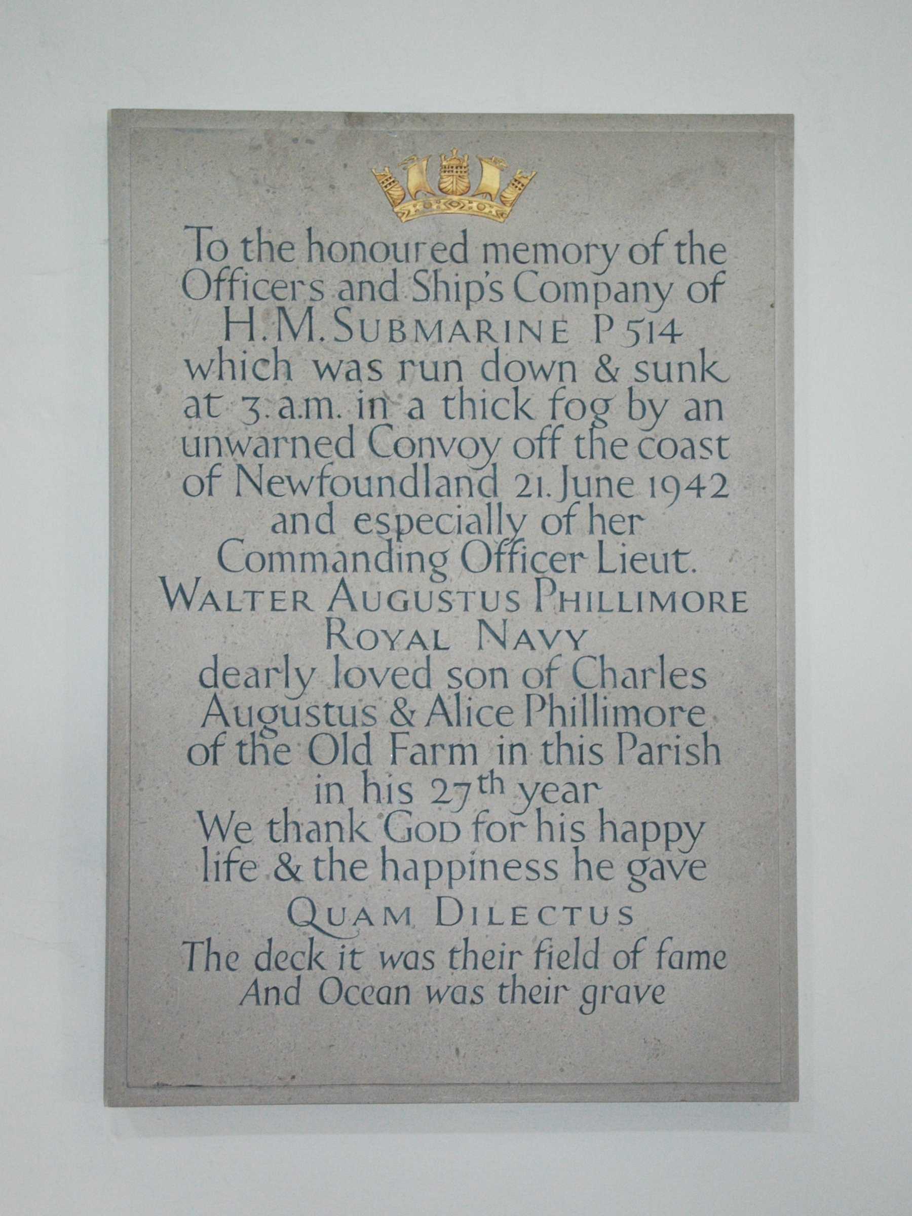 Church of England parish church of St Mary the Virgin, Swinbrook, Oxfordshire: monument to Lt. W.A. Phillimore, R.N. and the crew of HMS P514, killed 1942